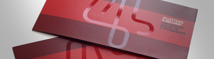 character number 4